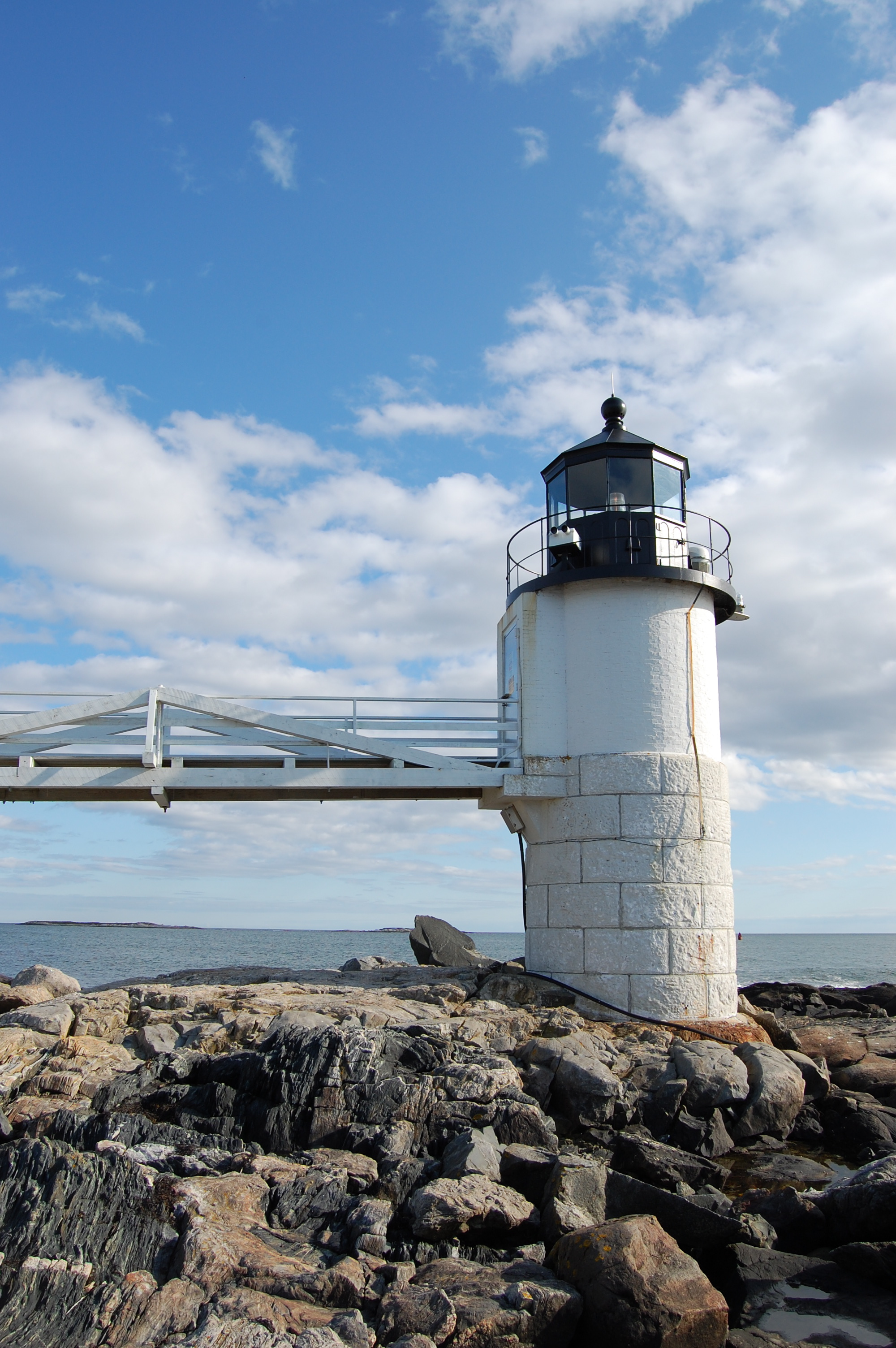 Marshall Point Light Station at Port Clyde, Maine, USA